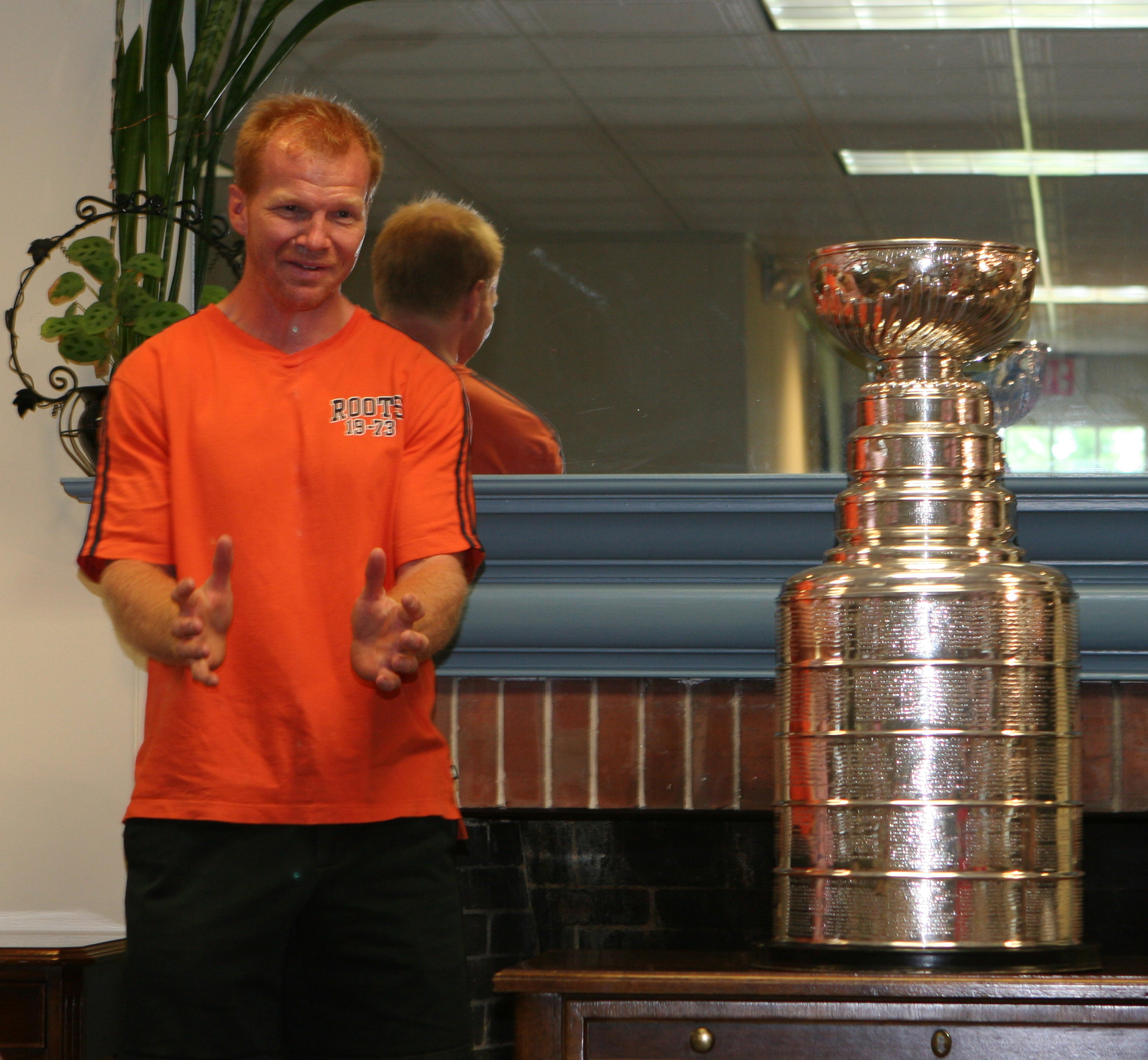 Marine Corps Base Camp Lejeune, North Carolina - Defenseman for the Stanley Cup Champion Carolina Hurricanes, Glen Wesley, speaks to Marines wounded in the War on Terrorism at the Wounded Warrior Barracks here July 13, 2006. Wesley shared his day with the Stanley Cup with the Marines, wishing them a speedy recovery and successful future.